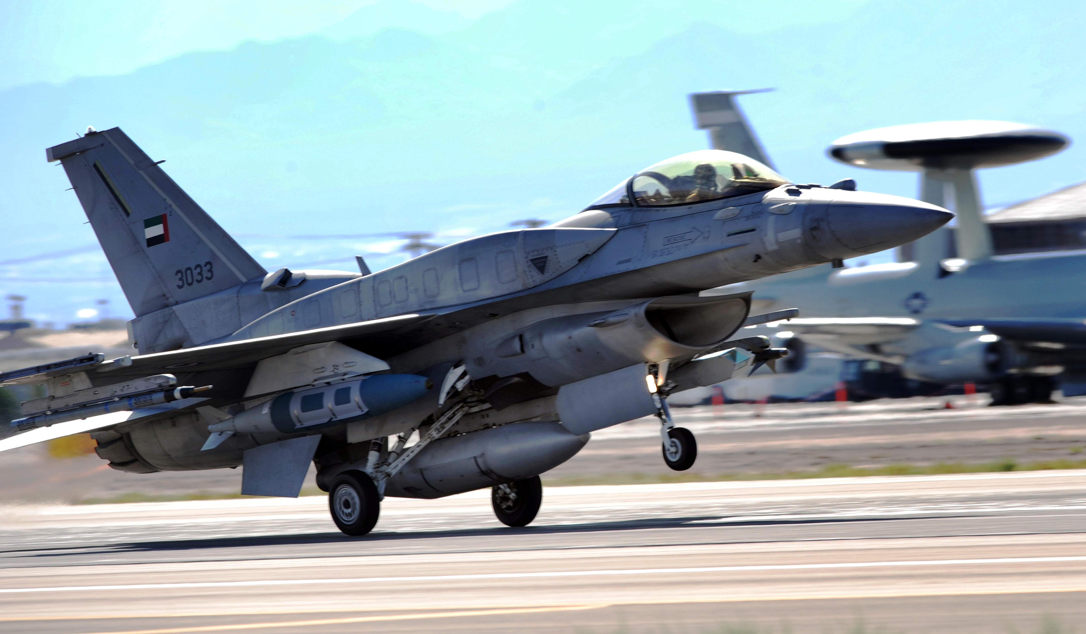 A United Arab Emirates (UAE) air force F-16E Fighting Falcon aircraft from Al Dhafra Air Base, UAE, takes off for a training mission during Red Flag 09-5 at Nellis Air Force Base, Nev., Aug. 26, 2009.